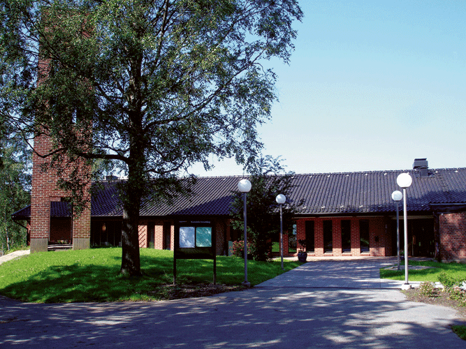 Front entrence of the Allhelgona church in Kortedala, Gothenburg